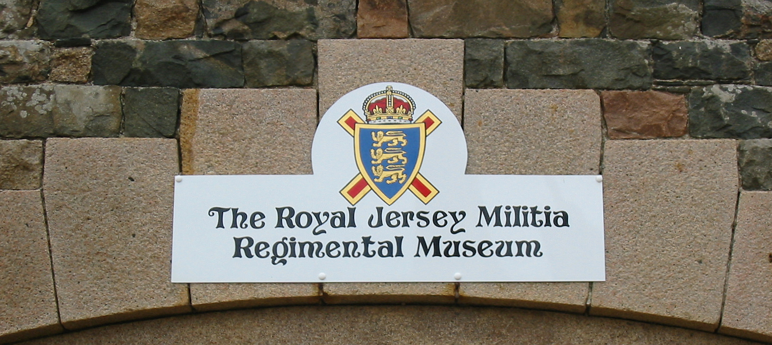 Saint Helier pilgrimage, Saint Helier, Jersey, 19 July 2009